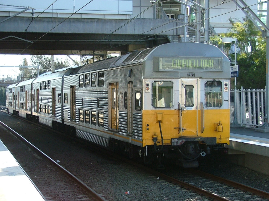 Untargetted CityRail S set at Blacktown Railway Station Platform 3.